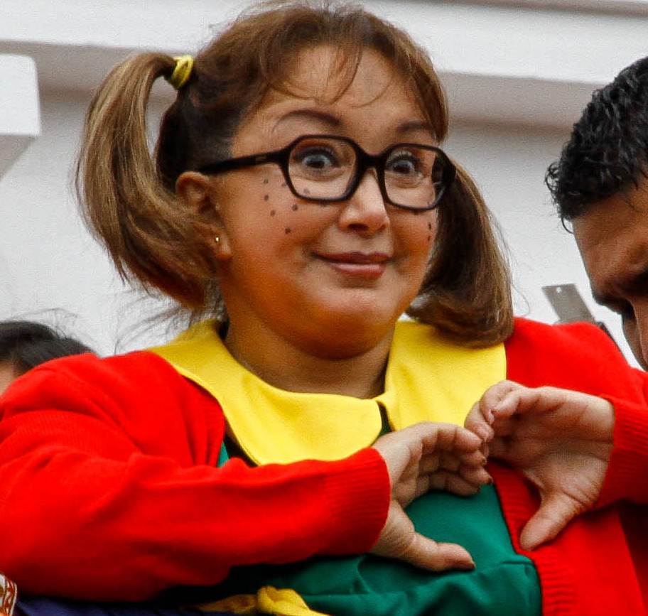 María Antonieta de las Nieves portraying her character "La Chilindrina" in December 2014